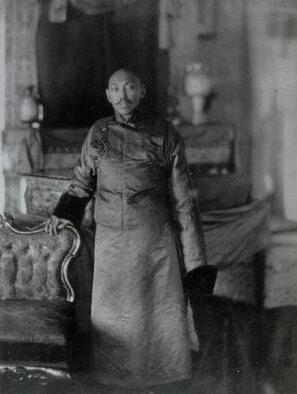 Thubten Gyatso, the 13th Dalai Lama photographed in Calcutta in 1910